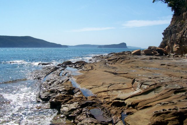 Broken Bay from Flint & Steel Beach, featuring Lion Island